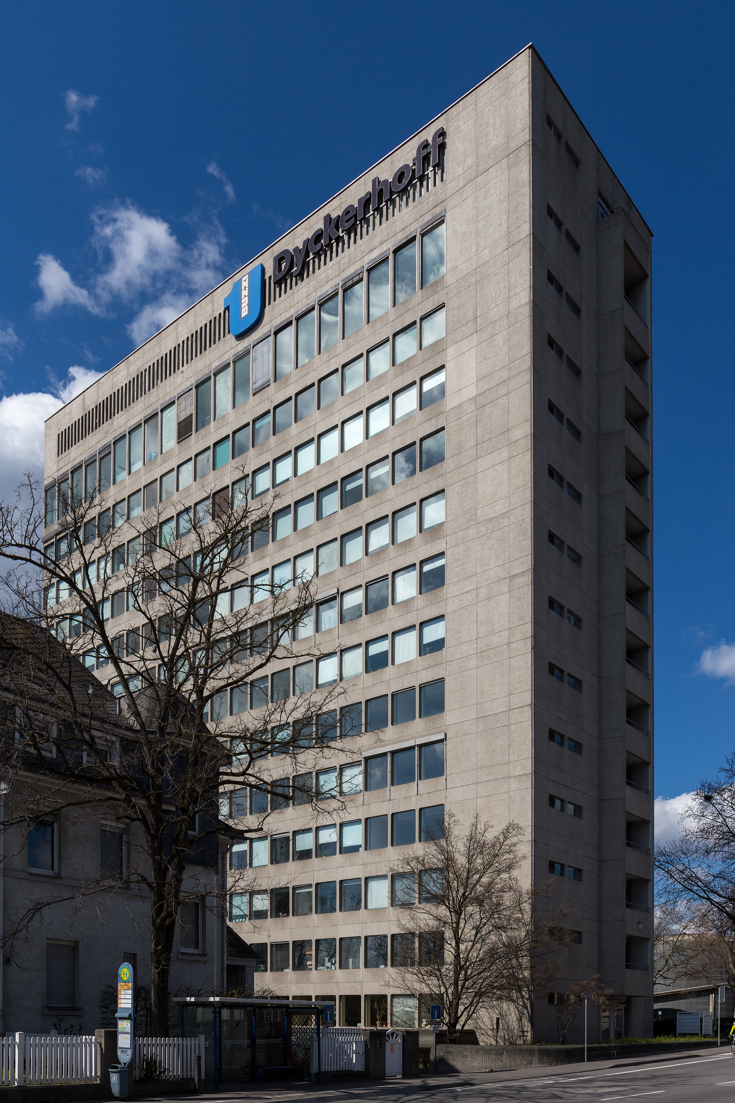 The administrative building of Dyckerhoff GmbH in Mainz-Amöneburg.